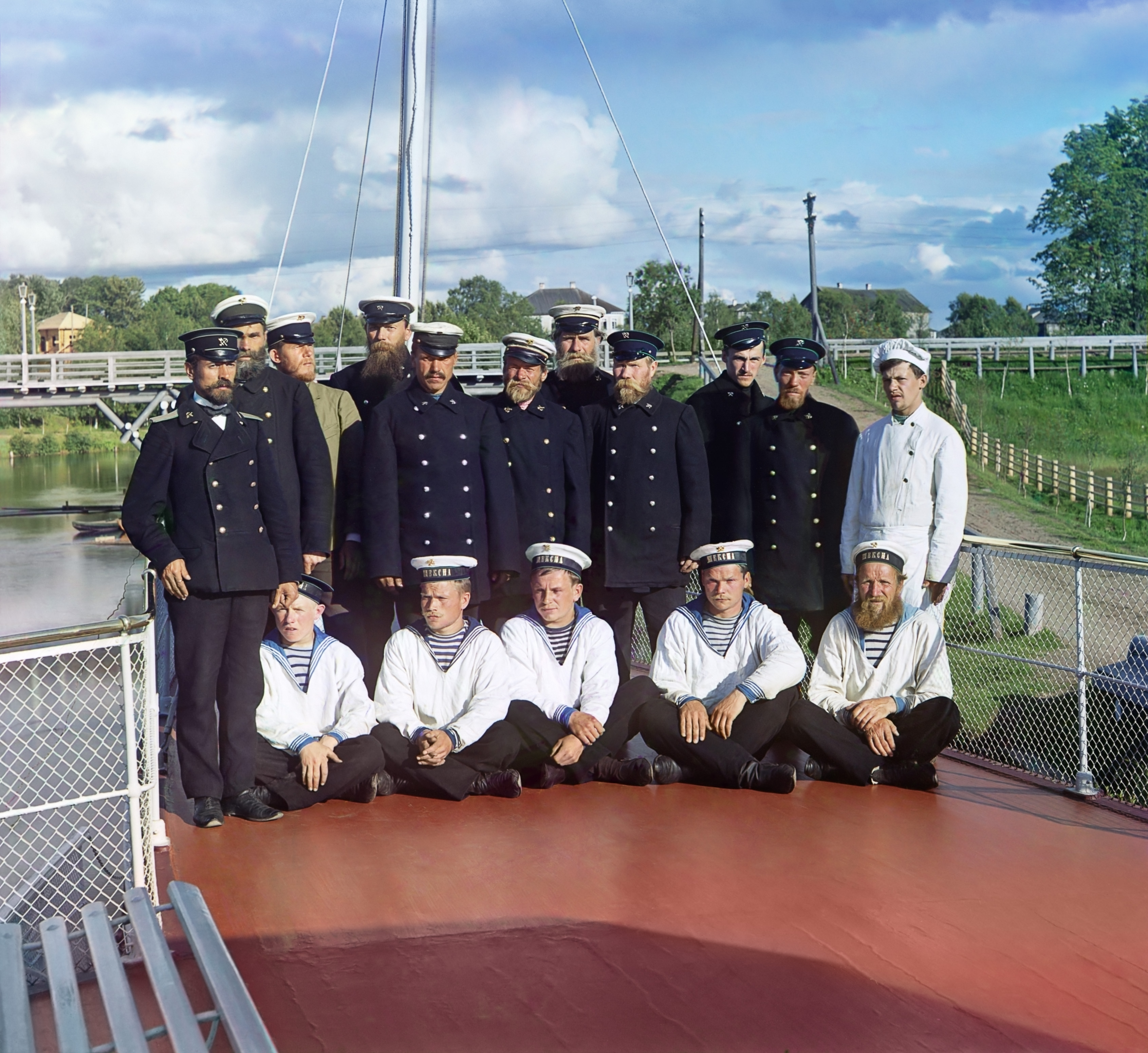 Crew of the steamship "Sheksna" of the M.P.S. (Ministry of Communication and Transportation). (Russian Empire)